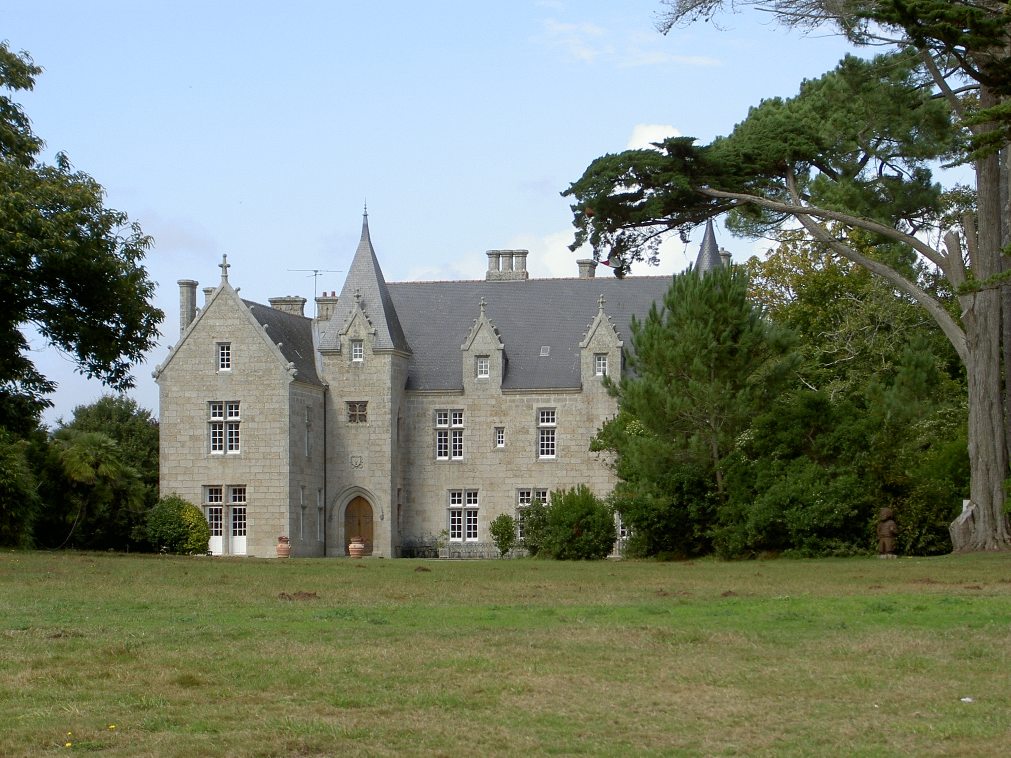 Manor of Kerlut in Plobannalec-Lesconil, France.